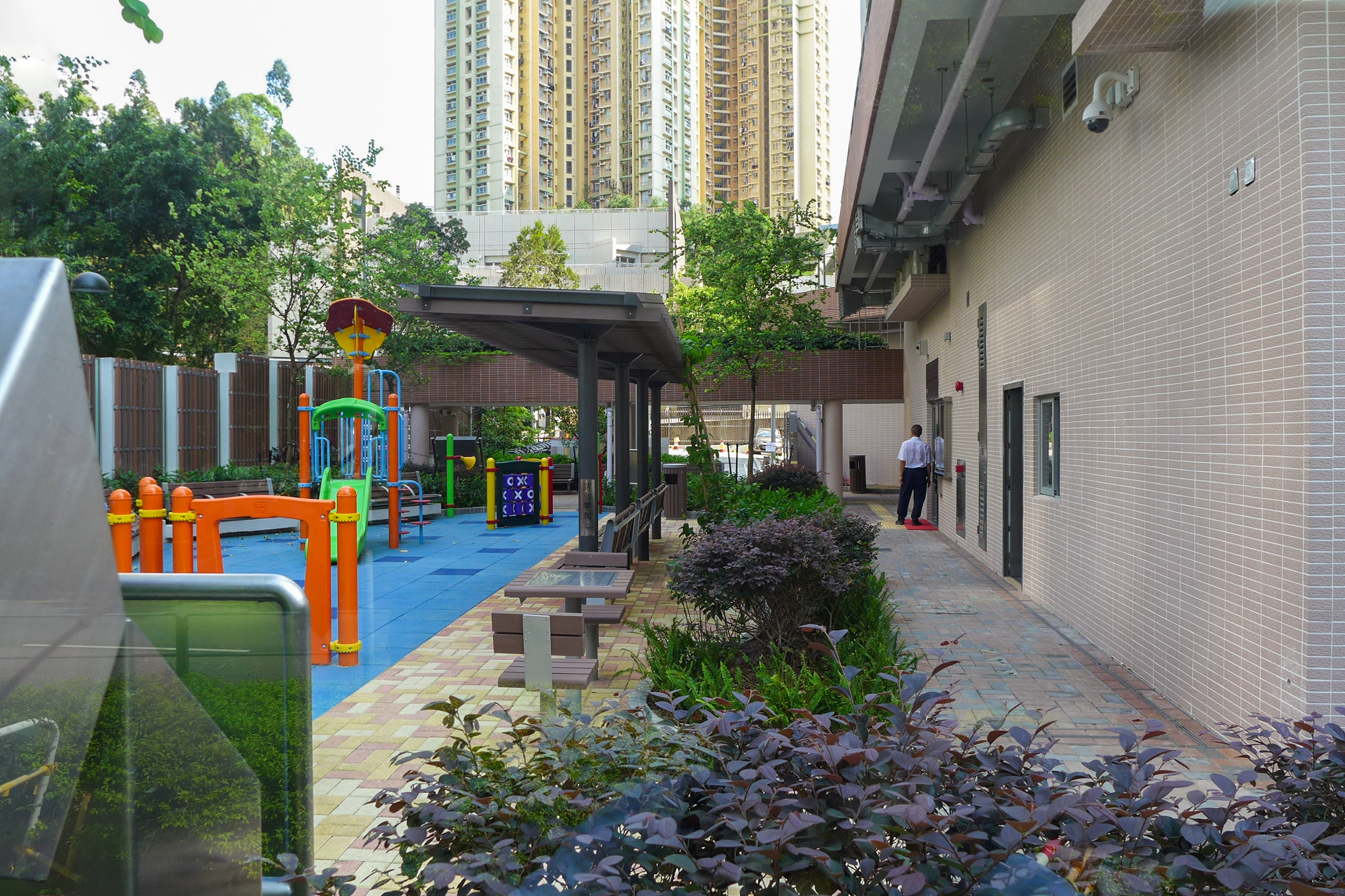 Mei Ying Court Children Play Area